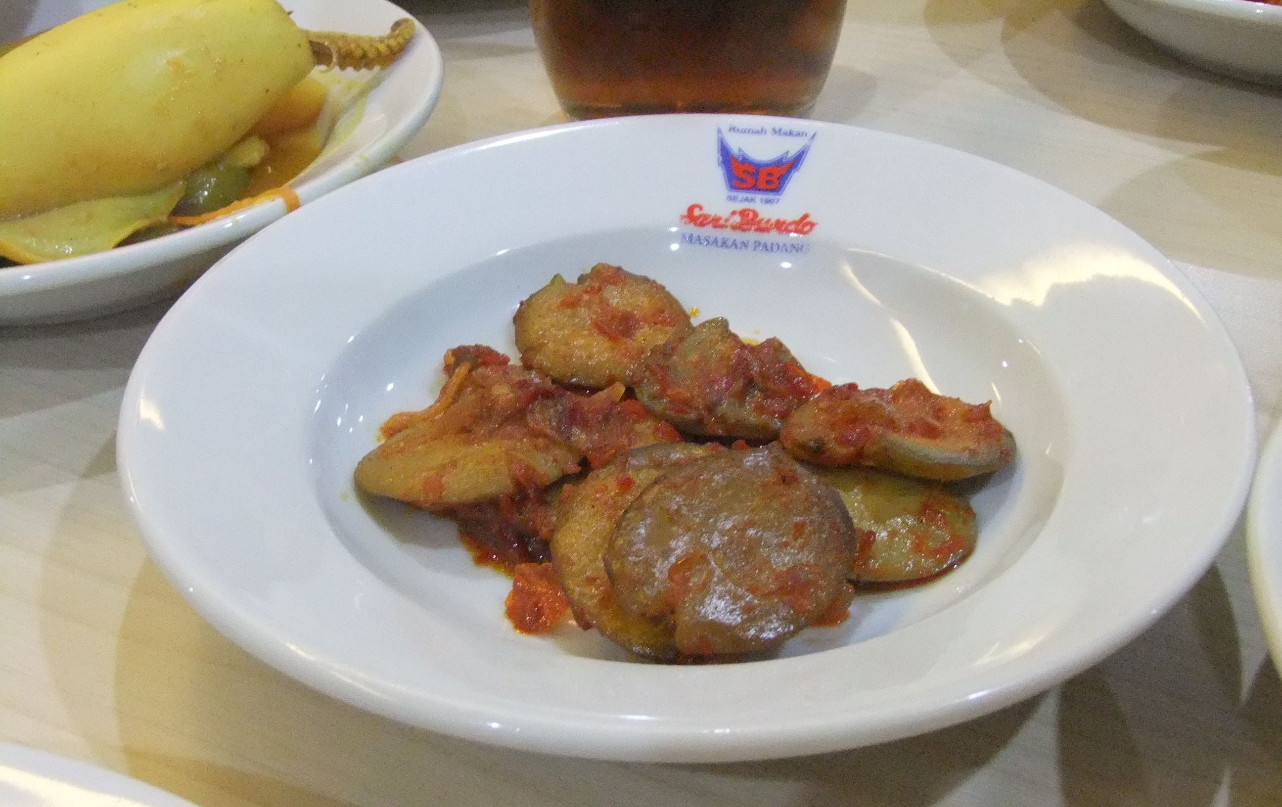 Archidendron pauciflorum in sambal